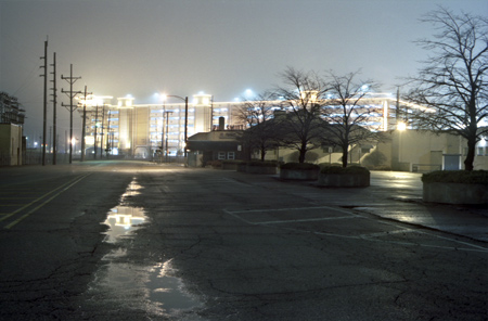 Hammond, Lake County, Indiana.